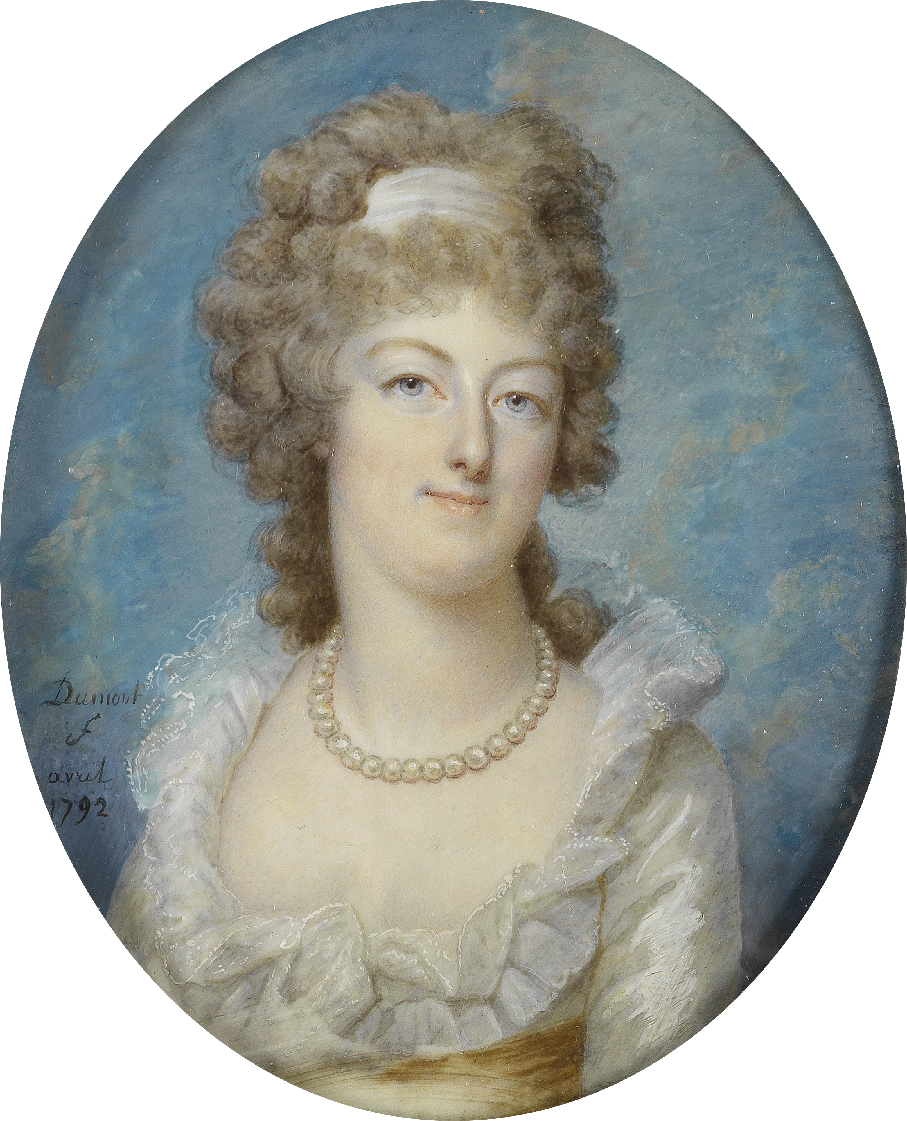 Portrait of Marie Antoinette (1755-1793)